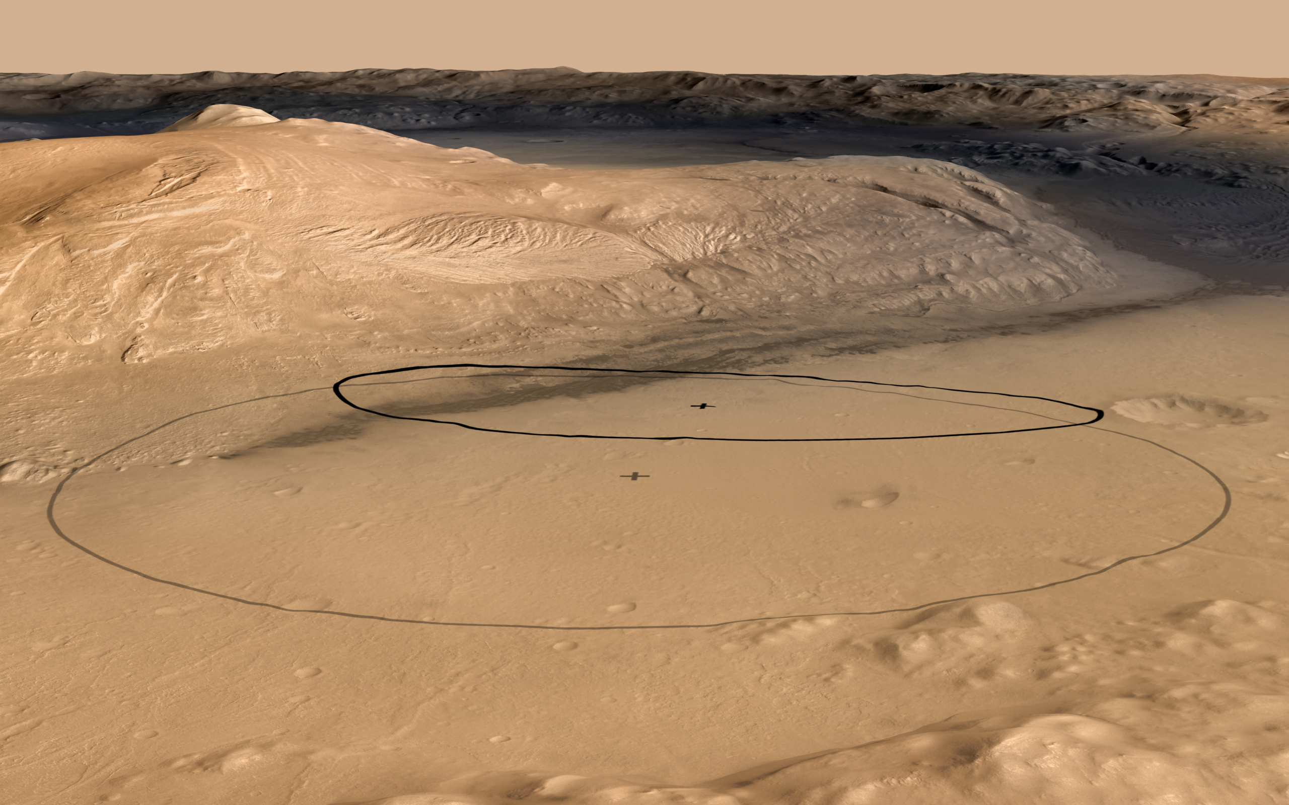 Revised Landing Target for Mars Rover Curiosity This image shows changes in the target landing area for Curiosity, the rover of NASA's Mars Science Laboratory project. The larger ellipse was the target area prior to early June 2012, when the project revised it to the smaller ellipse centered nearer to the foot of Mount Sharp, inside Gale Crater. This oblique view of Mount Sharp is derived from a combination of elevation and imaging data from three Mars orbiters. The view is looking toward the southeast. The larger ellipse, 12.4 miles (20 kilometers) by 15.5 miles (25 kilometers) was already smaller than the landing target area for any previous Mars mission, due to this mission's techniques for improved landing precision. Continuing analysis after the Nov. 26, 2011, launch resulted in confidence in landing within an even smaller area, about 12 miles by 4 miles (20 by 7 kilometers). Using the smaller ellipse, the Mars Science Laboratory Project also moved the center of the target closer to the mountain, which holds geological layers that are the prime destination for the rover. Landing will be the evening of Aug. 5, 2012, Pacific Standard Time (early Aug. 6 Universal Time and Eastern Time). The image combines elevation data from the High Resolution Stereo Camera on the European Space Agency's Mars Express orbiter, image data from the Context Camera on NASA's Mars Reconnaissance Orbiter, and color information from Viking Orbiter imagery. There is no vertical exaggeration in the image. NASA's Jet Propulsion Laboratory, a division of the California Institute of Technology, Pasadena, manages the Mars Science Laboratory mission for the NASA Science Mission Directorate, Washington.